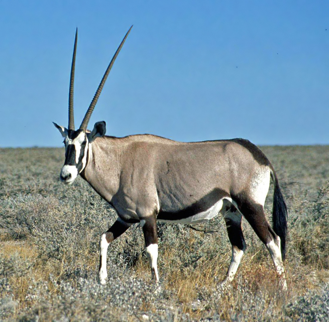 Gemsbok, Etosha National Park, Namibia